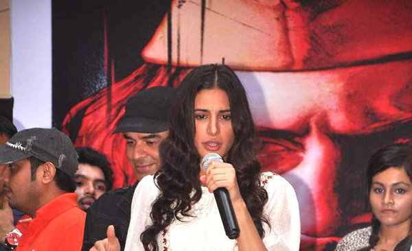 Nargis Fakhri promote 'Rockstar' at MMK College